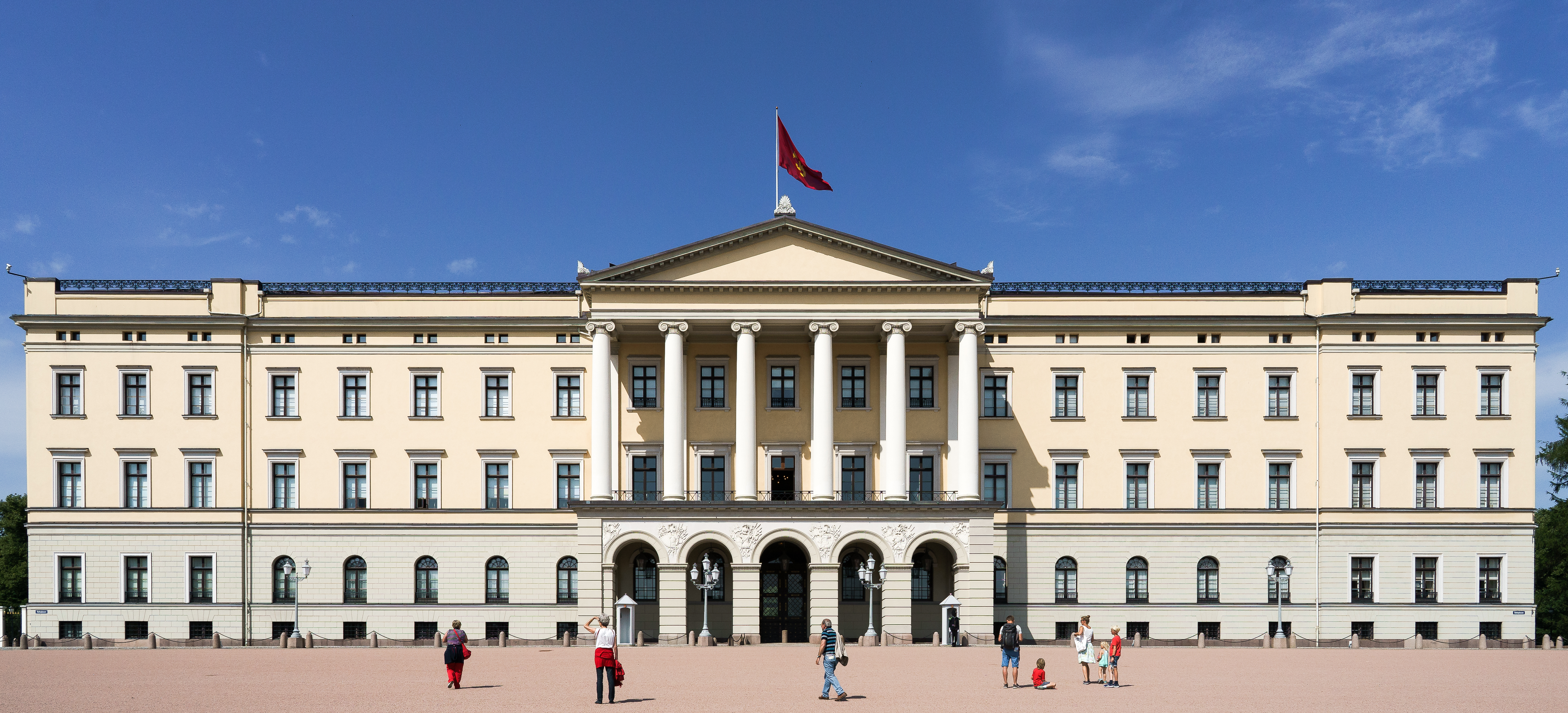 Royal Palace, Oslo - front of the main wing